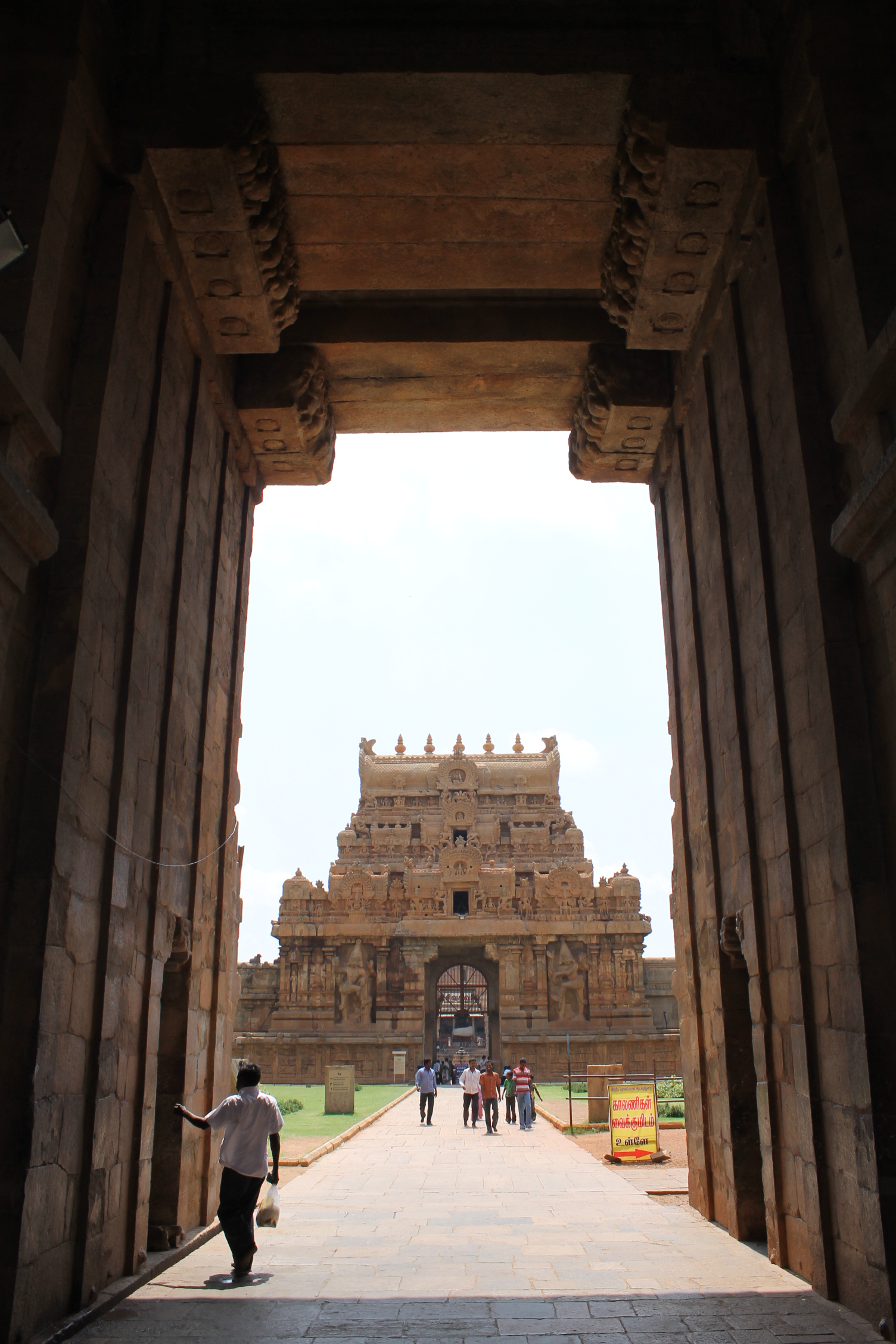 "A Royal Image of Rajarajan Entrance of The Big Temple" Location: Thanjavur, Tamil Nadu, India. UNESCO declared this monument as world heritage symbol.